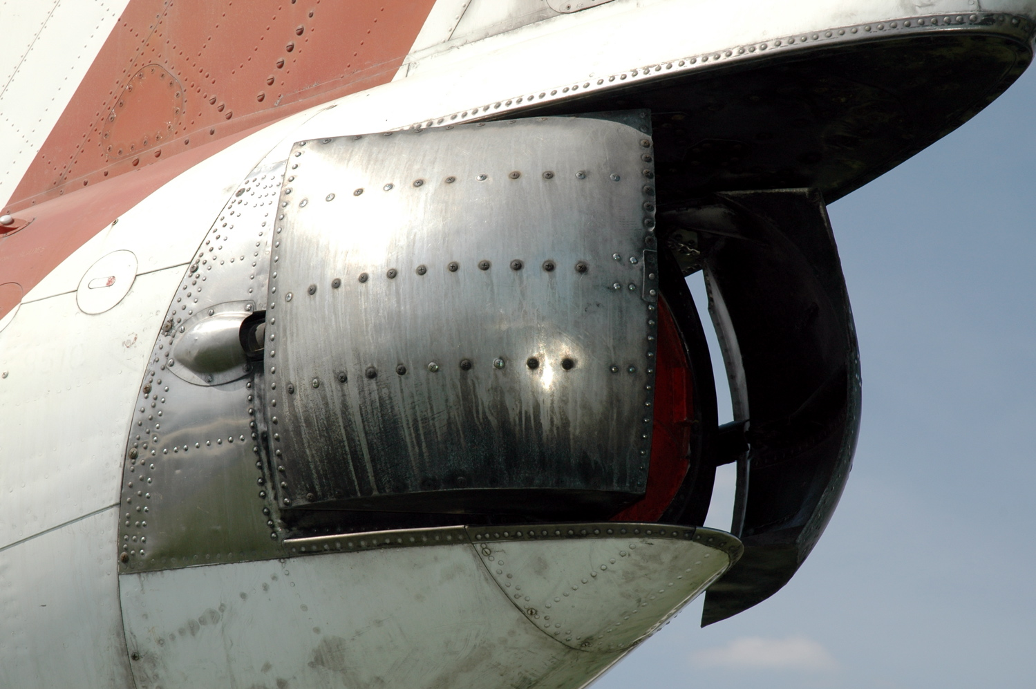 Thrust reverser on Yakovlev Yak-40 (Polish Aviation Museum, Cracow, Poland)